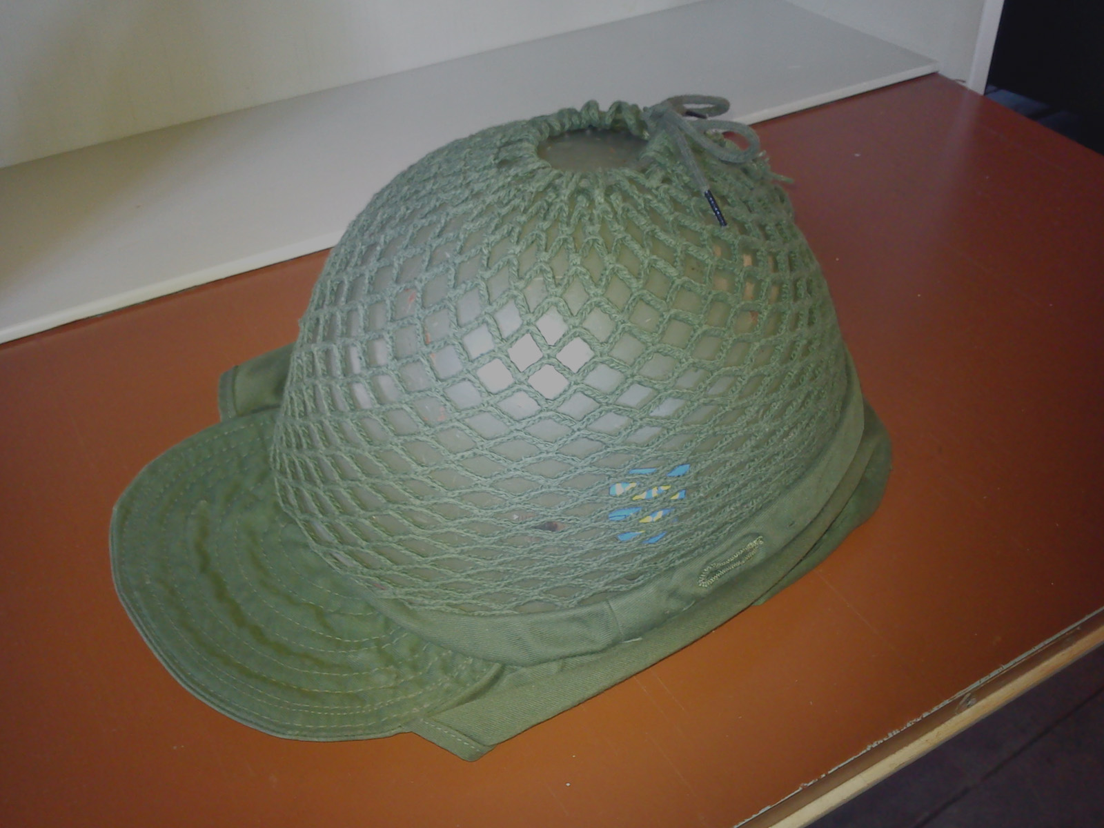 A Swedish M/1937-65 combat helmet with M/59 helmet cover.